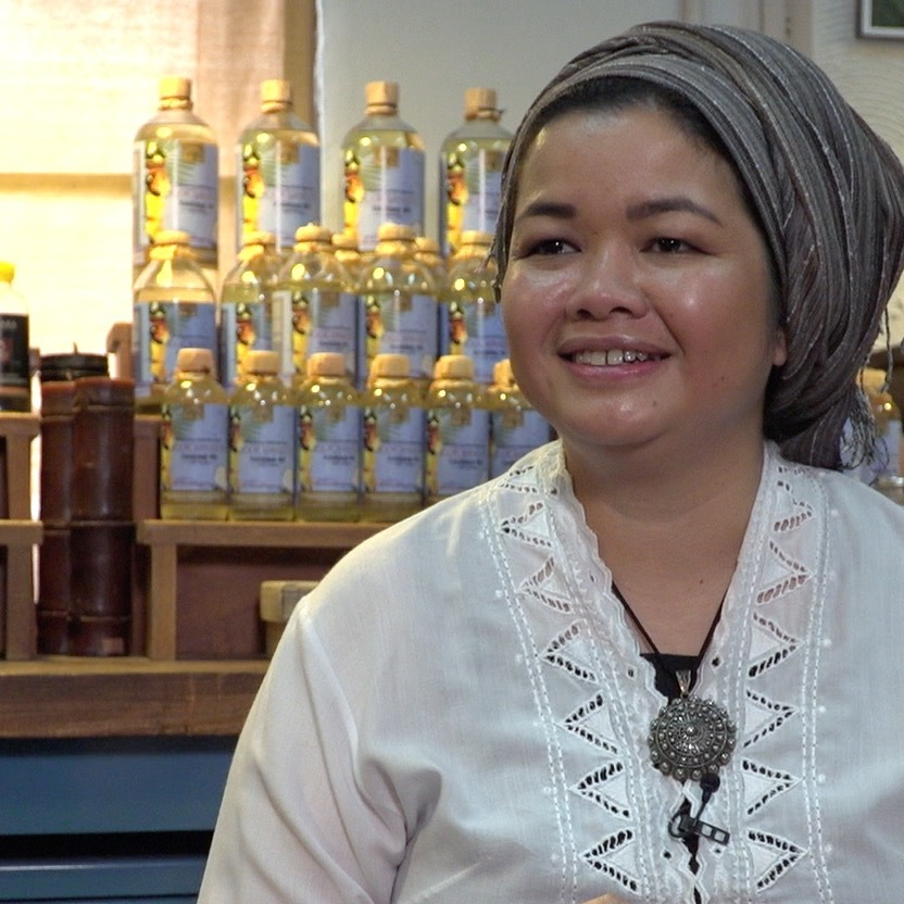 Indonesian businesswoman Helianti Hilman is the Founder and CEO of the "Javara" brand of Indonesian food biodiversity products. A strong trademark strategy is helping her to promote "Javara" in overseas markets. "Those who control the brands control the whole market," she says. Video: Helianti Hilman, Founder of Indonisia's "JAVARA". Case study: IP As a Tool to Move Beyond Subsistence Farming Copyright: WIPO. Photo: Jean-François Arrou-Vignod. This work is licensed under a Creative Commons Attribution-ShareAlike 3.0 IGO License.